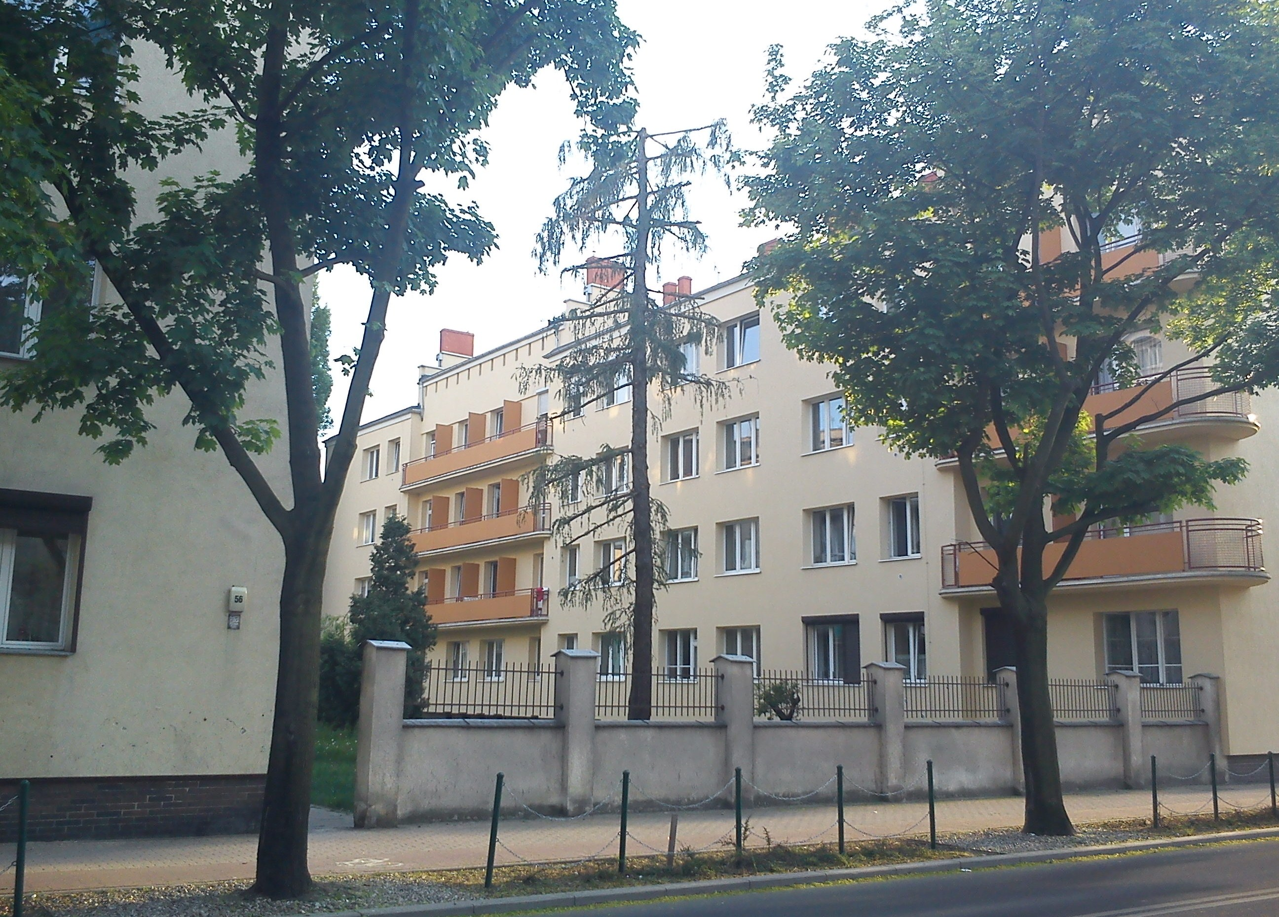 Poznan, Modern District - Szamarzewskiego Street.